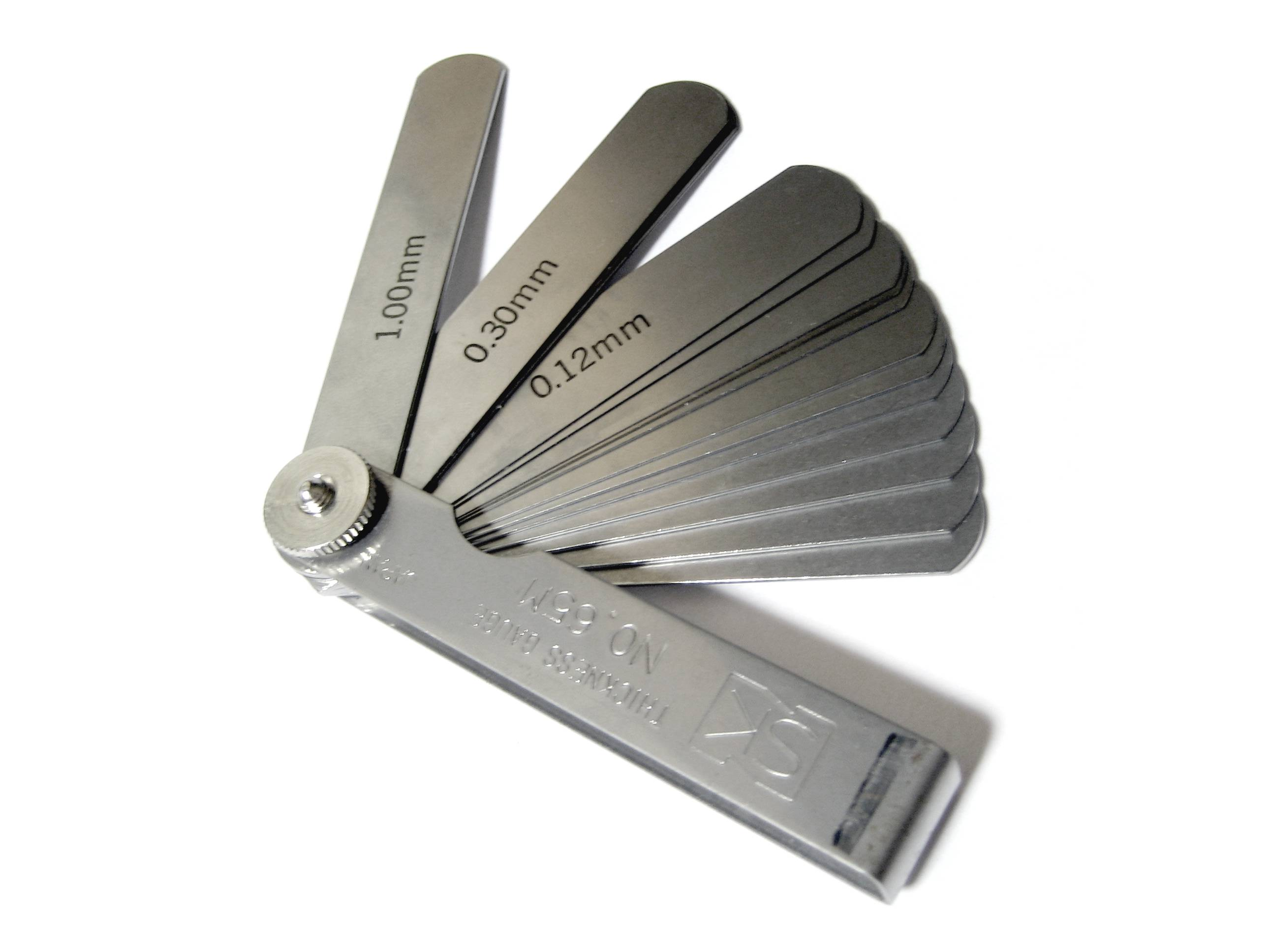 A thickness gauge (feeler gauge).